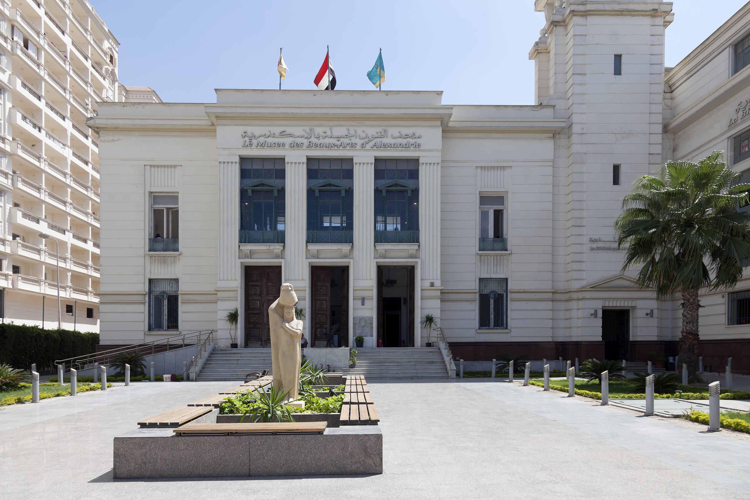 Museum of Fine Arts in Muharram Bey quarter, Alexandria, Egypt